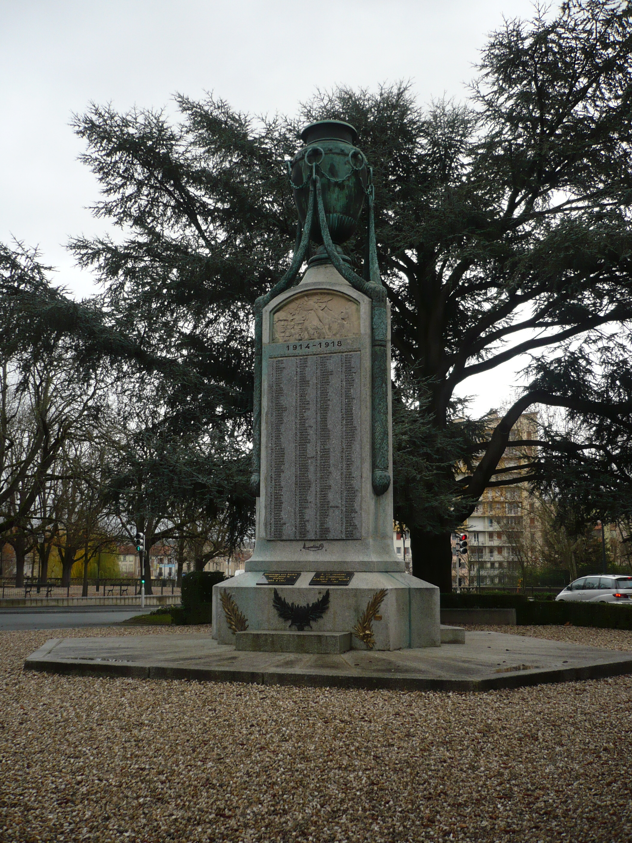 Castres